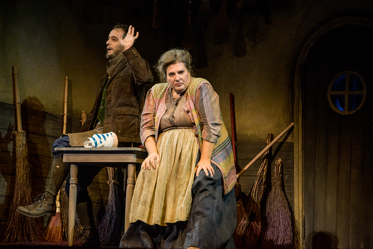 Hänsel und Gretel, Staatsoper Wien 2015